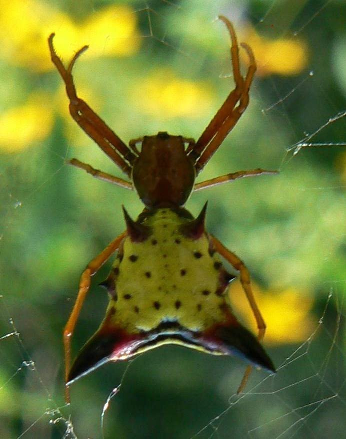 Orb Weaver